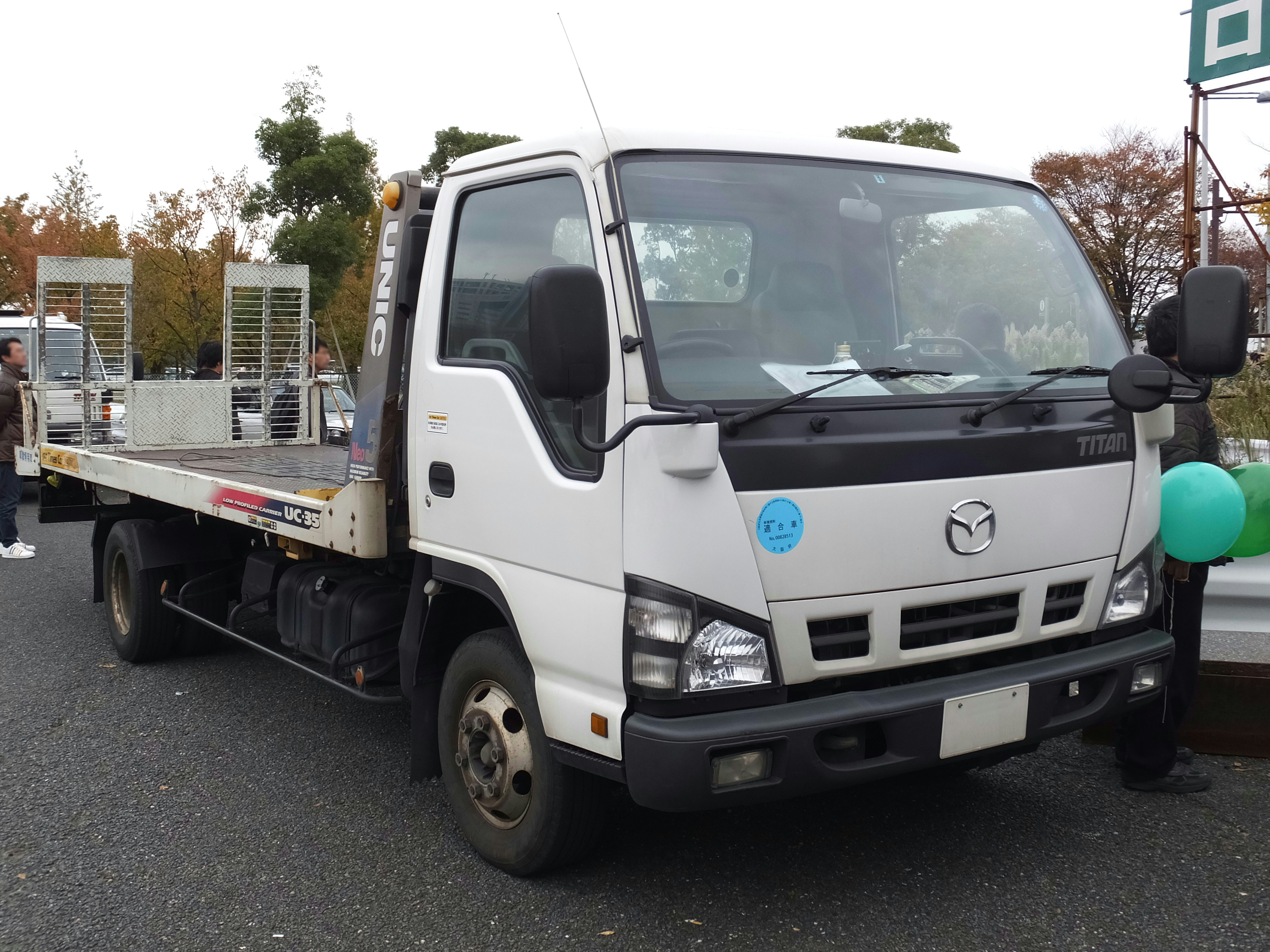 Mazda, Titan, Car carrier trailer 5th Gen.